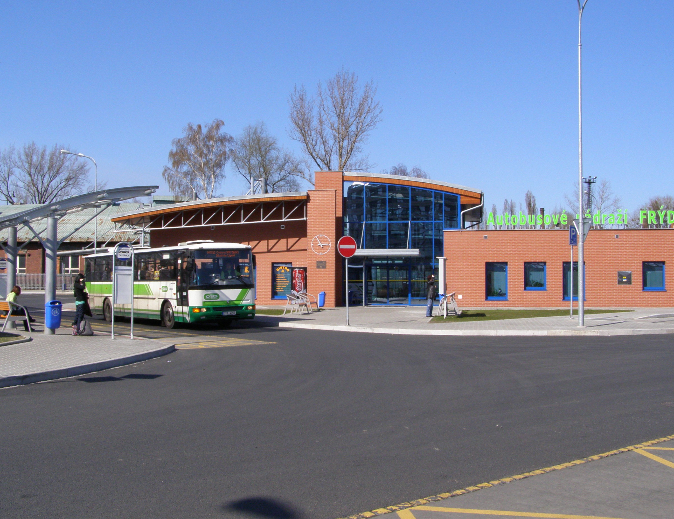 Frýdek-Místek, new bus station